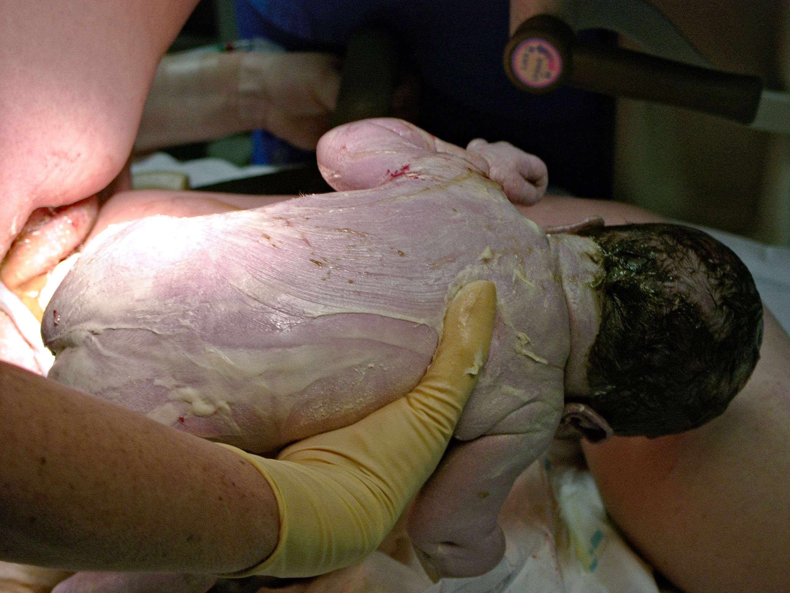 Vernix caseosa on a seconds-old newborn.